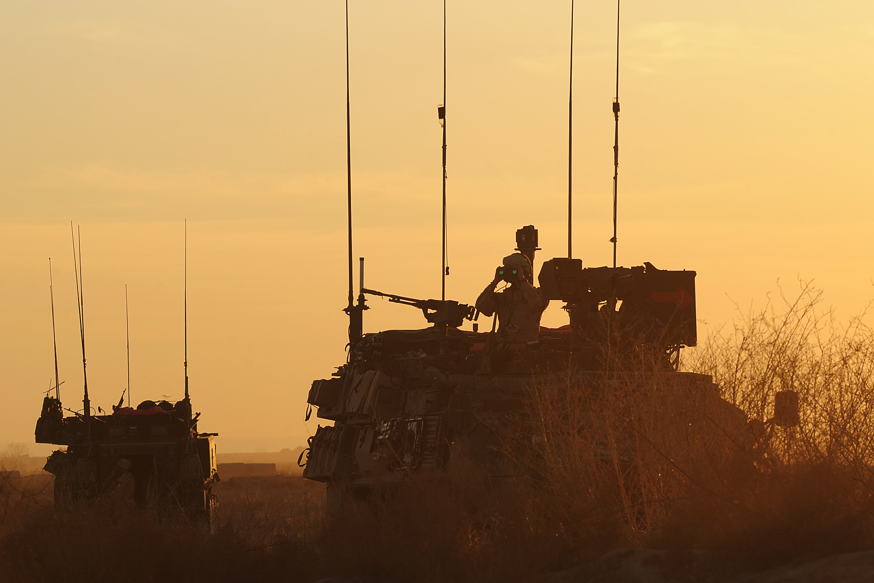 At sunset a convoy of Canadian Light Armored Vehicles over-watches the area near Khadan Village, Afghanistan, Jan. 25. (22nd Mobile Public Affairs Detachment Photo by Staff Sgt. Christine Jones)